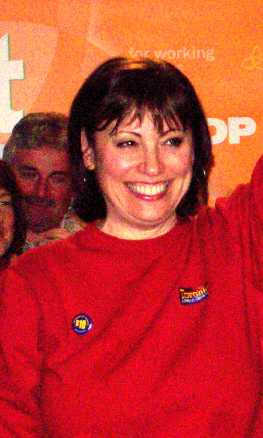 Maria Augimeri, Toronto City Councillor, Ward 9